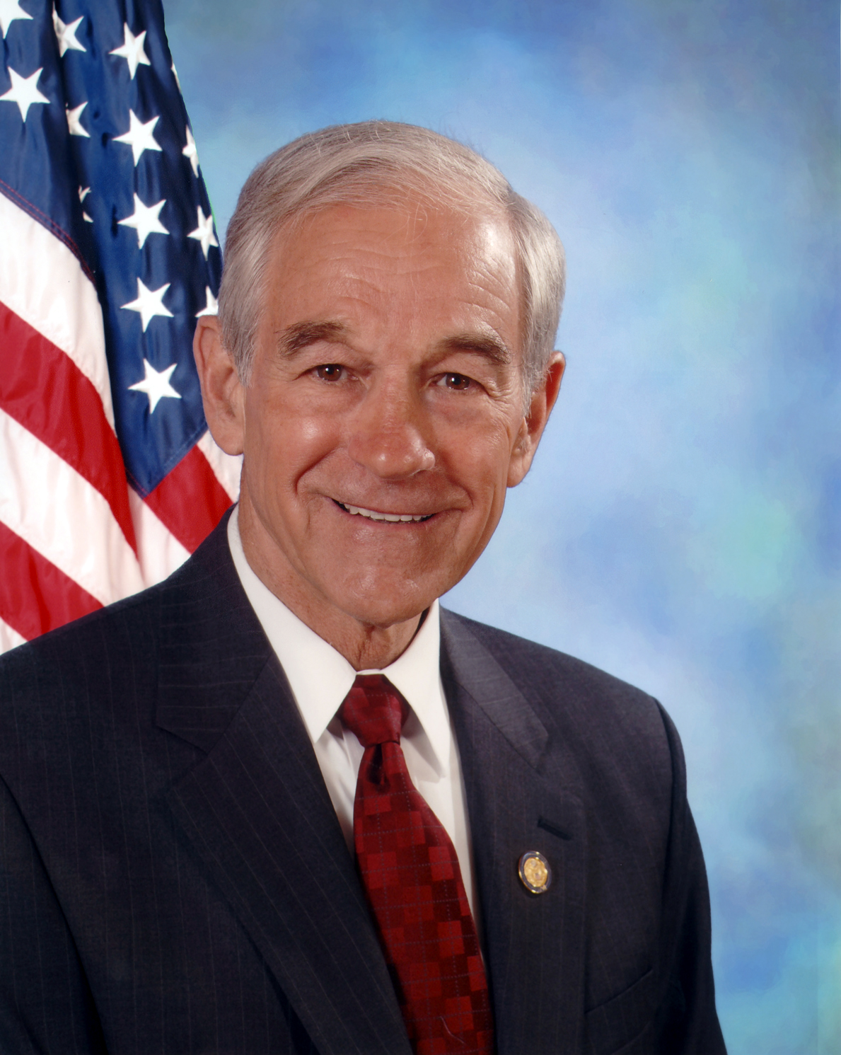 Ron Paul, member of the United States House of Representatives from Texas.